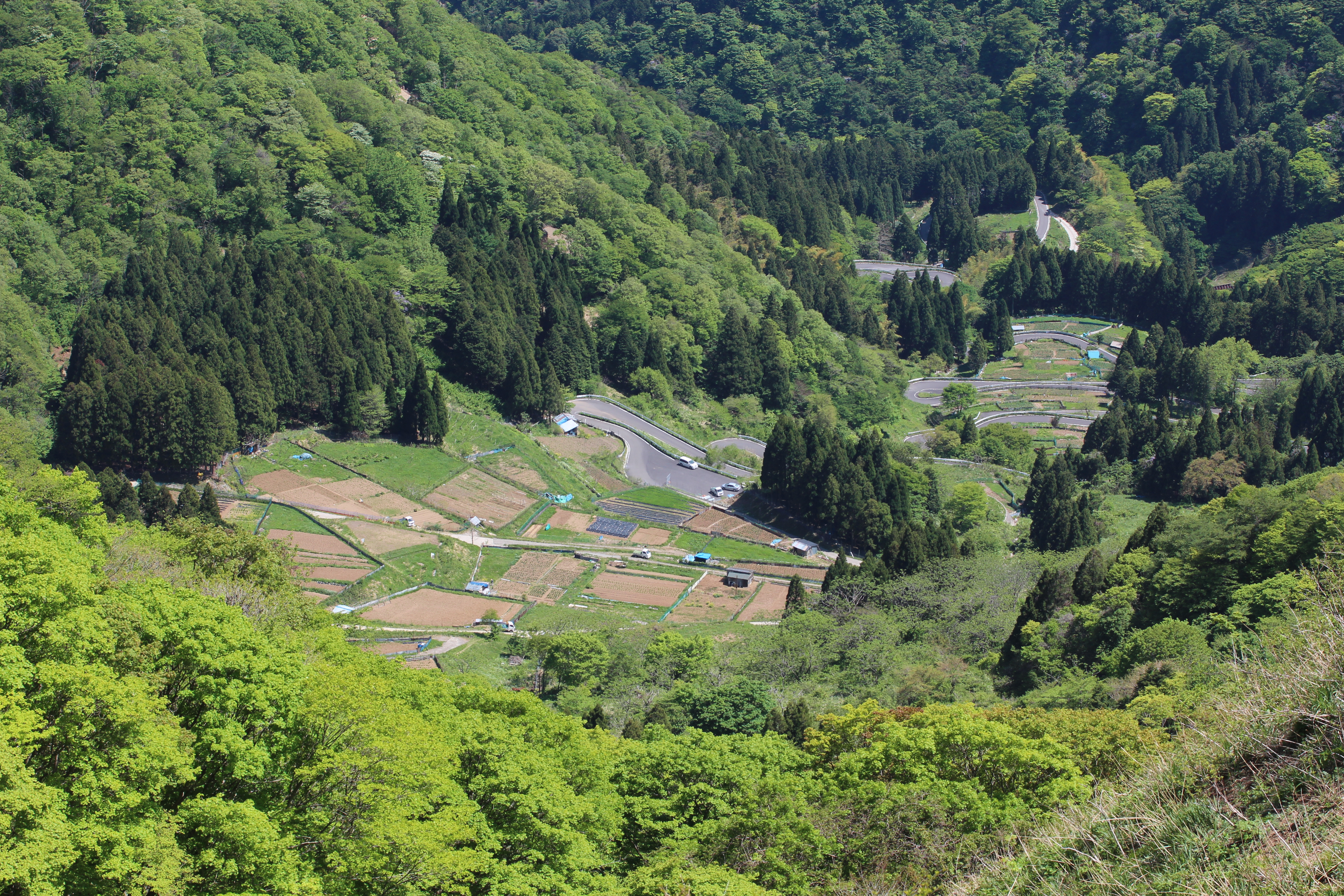 Farmland of Sasamata (Ibigawa, Gifu prefecture, Japan) seen from north ridge of Mount Ibuki.